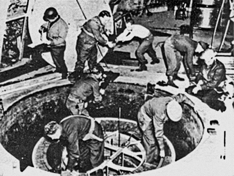 German Experimental Pile - Haigerloch - April 1945 The original caption reads: Dismantling the German experimental nuclear pile at Haigerloch, 50 km S.W of Stuttgart, April 1945. Rupert Cecil nearest camera, 'Bimbo' Norman extreme right, Eric Welsh standing on outer rim, the second man behind Cecil David Irving - picture scanned by me Ian Dunster from: Most Secret War by R. V. Jones - Coronet - 1981 - ISBN 0-340-24169-1 and credited to ... courtesy David Irving